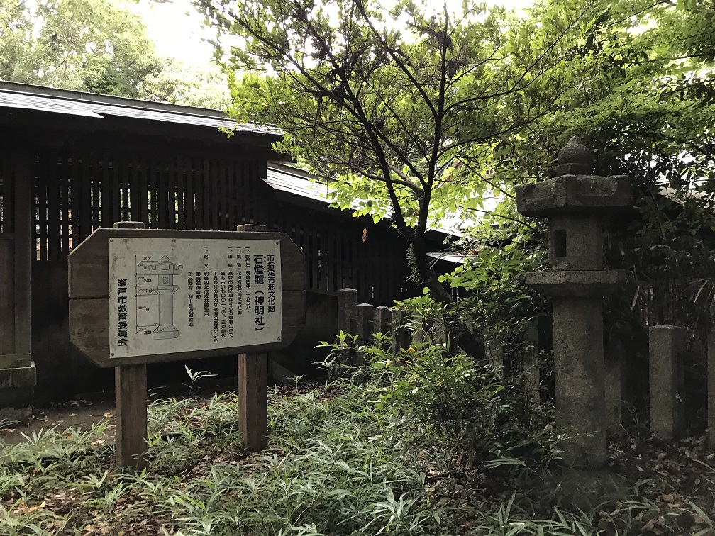 The stone lantern (toro) established in 1658, which are registered in selected tangible cultural properties in Seto city.